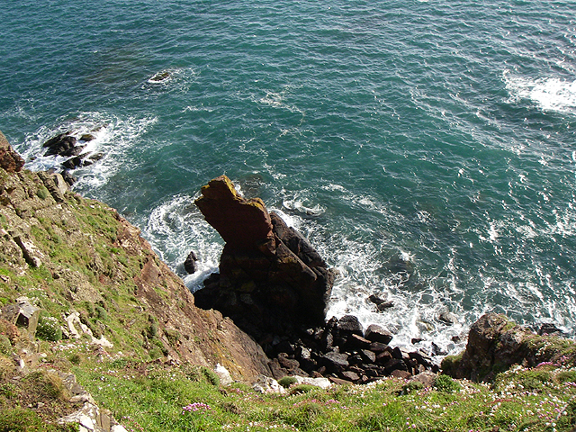 The Nab Head. Standing as close to the edge as I dared, to look down on the rocks just inside the grid square SM7811.